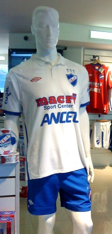 Club Nacional de Football's home uniform of 2011.